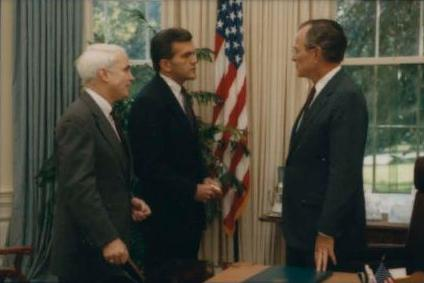 PRESIDENT BUSH SIGNS THE USO ANNIVERSARY COMMEMORATIVE COIN ACT. SEN. JOHN MCCAIN, REP. TOM RIDGE AND CHAPMAN COX ARE PRESENT.